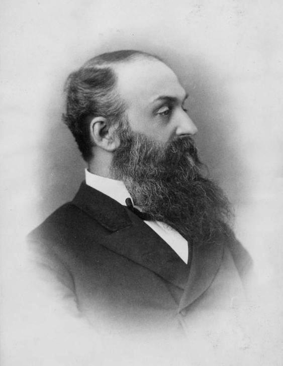 Photograph: A. Desjardins, Montreal, QC, by Notman & Sandham April 27, 1882. Silver salts on paper mounted on paper, Albumen process, 15 x 10 cm